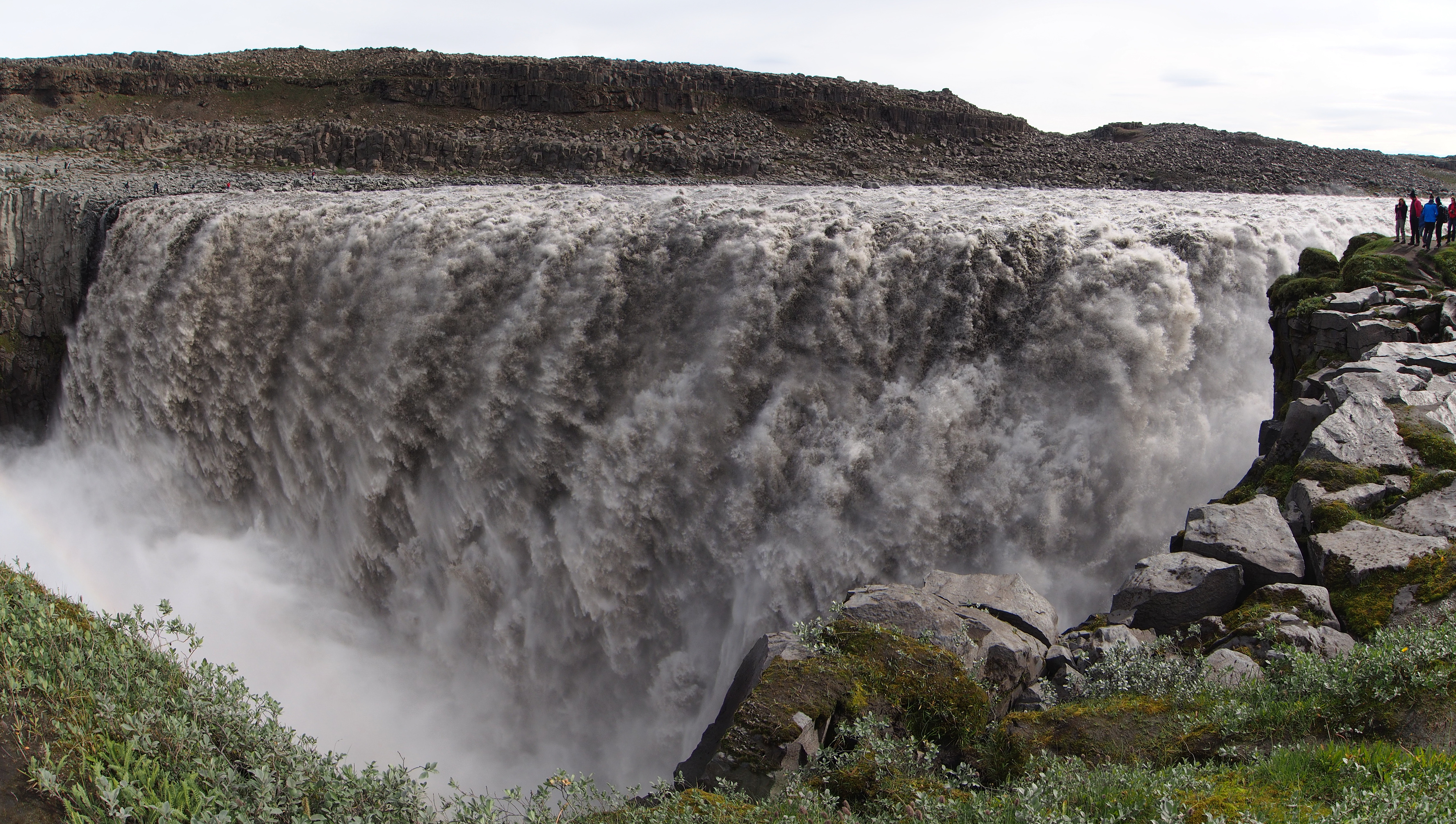 Waterfall Dettifoss, the Most Powerful Waterfall in Europe - 2013.08